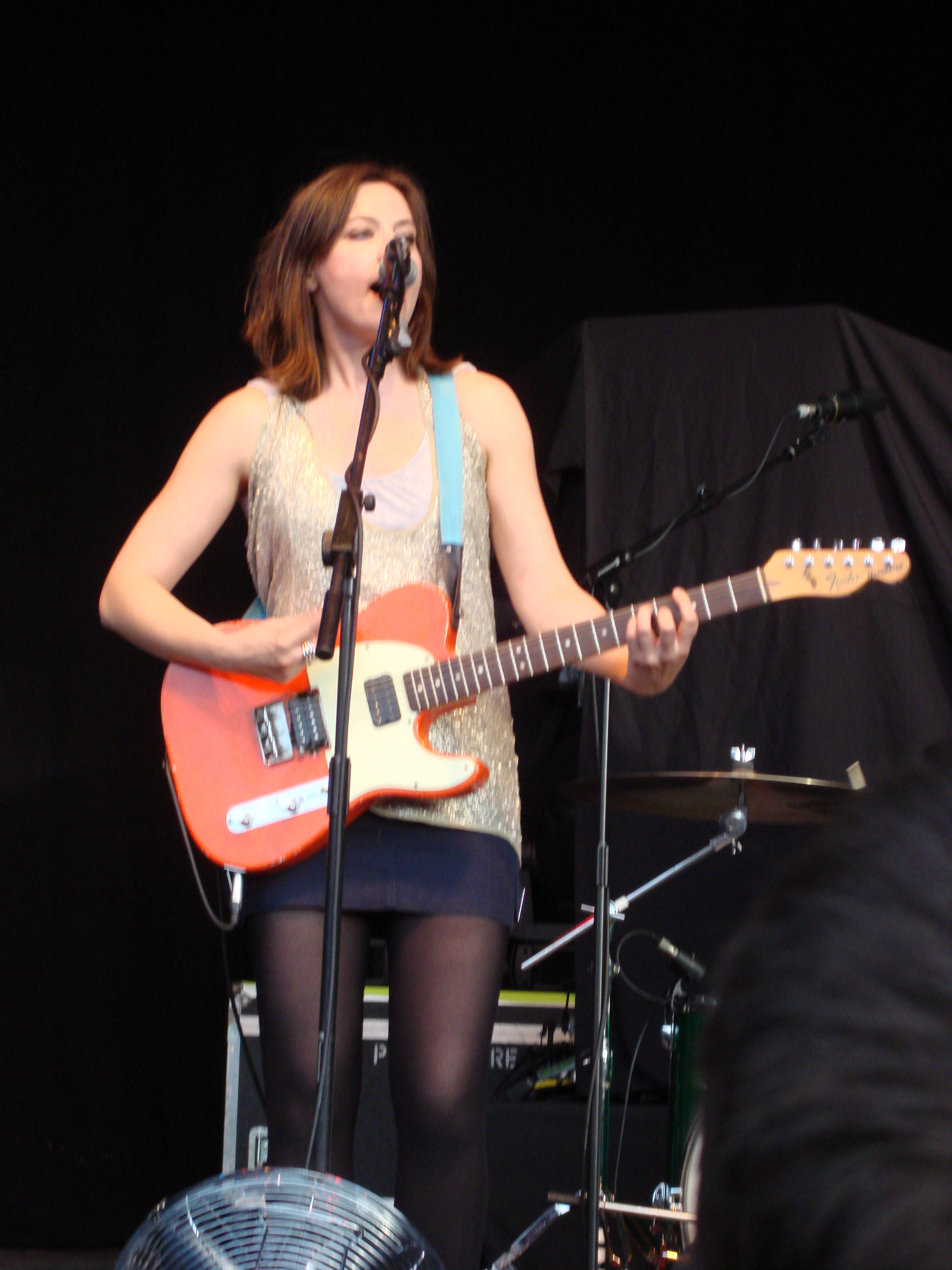 Charlotte Hatherley, BLONDIE support TOUR, Thetford Forrest, UK